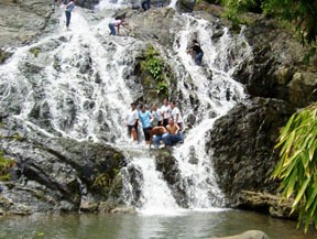 Kaytitinga Falls! I, hereby state and certify, that this is my own work, which I took picture of on February 7, 2009 at San Jose del Monte City, Bulacan, Philippines.